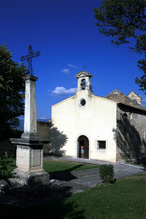 Church (chapel) in the village of Valréas, Vaucluse, France